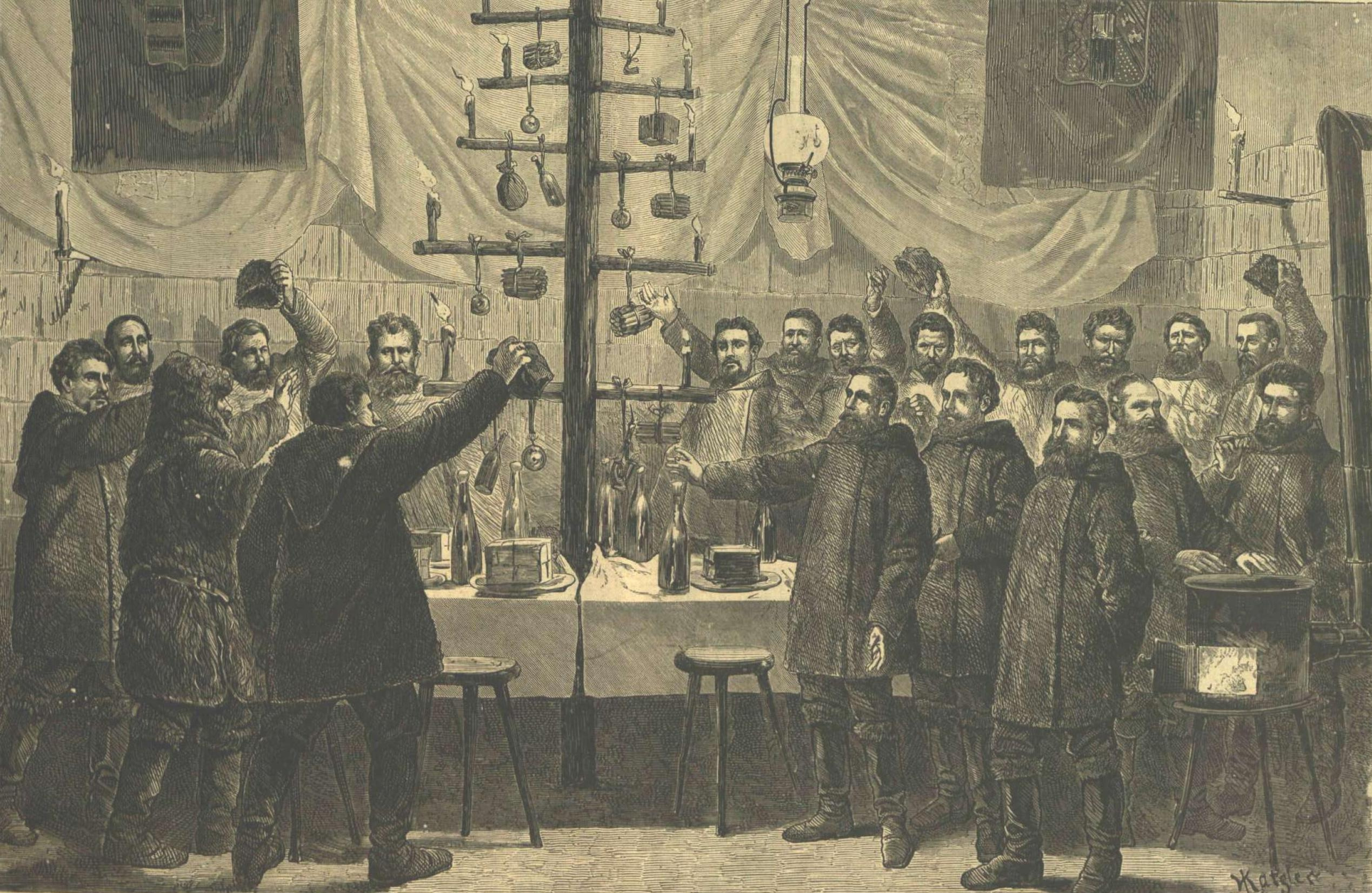 Austro-Hungarian North Pole Expedition at Christmas